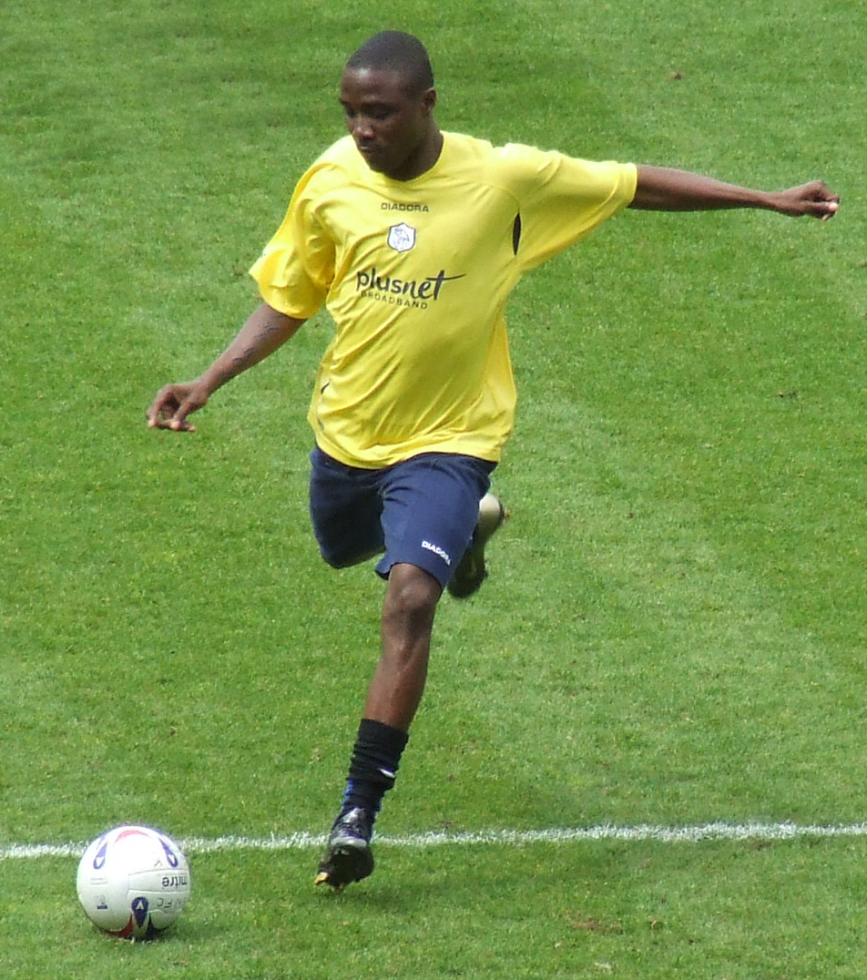 Jermaine Johnson at Hillsborough Stadium, Sheffield, UK